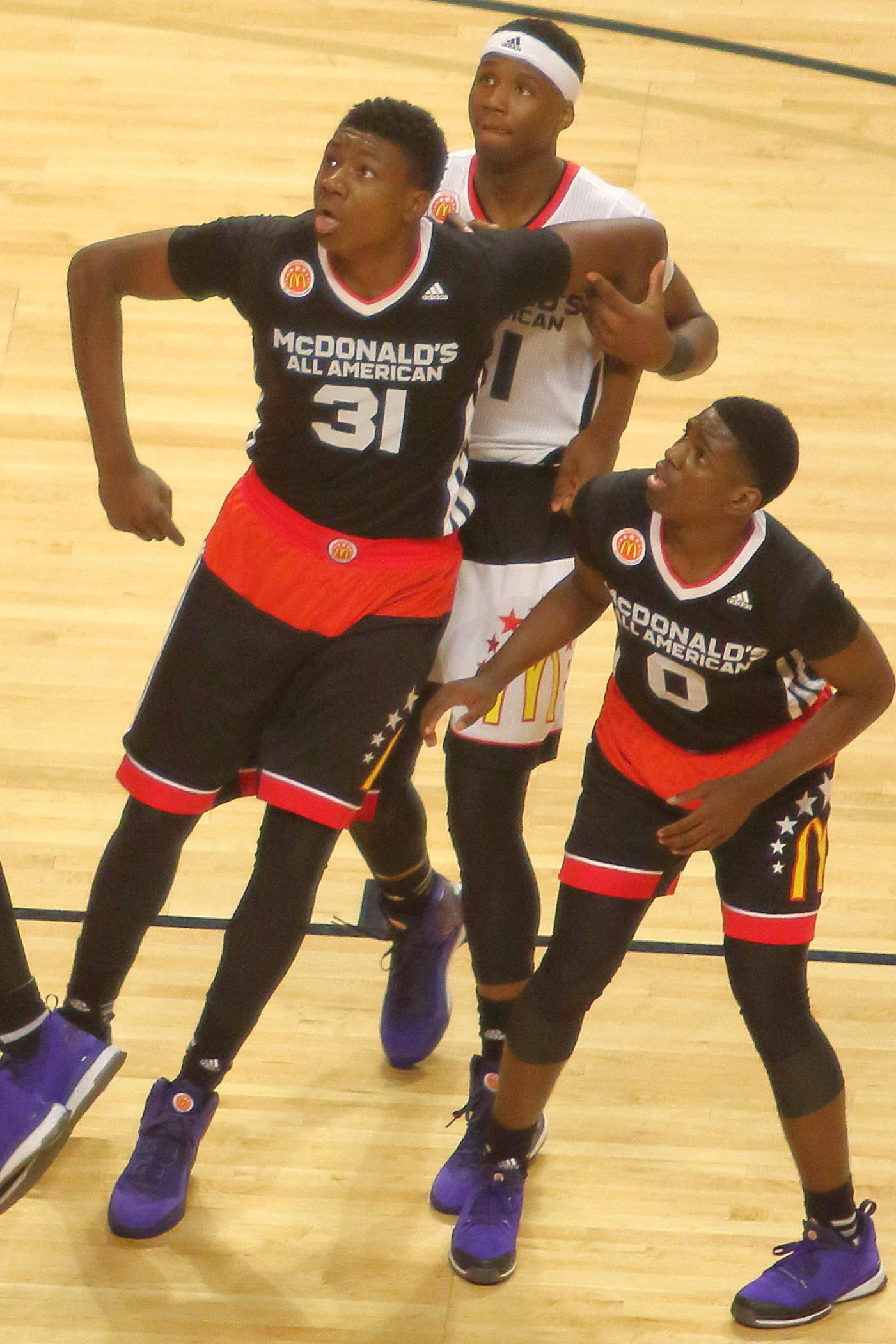 Thomas Bryant boxing out Carlton Bragg in front of Jawun Evans in the w:2015 McDonald's All-American Boys Game